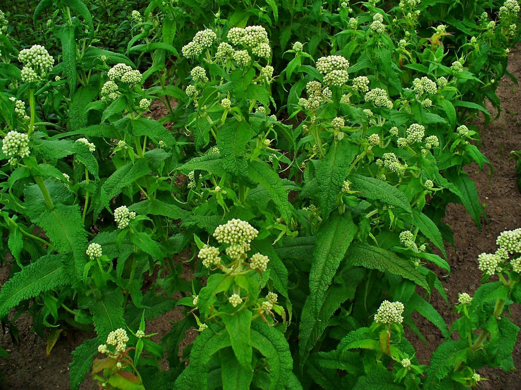 Eupatorium perfoliatum, Asteraceae, Common Boneset, habitus. The blooming plant is used in homeopathy as remedy: Eupatorium perfoliatum (Eup-per.)